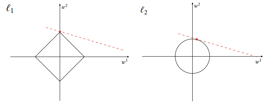 Sparsity